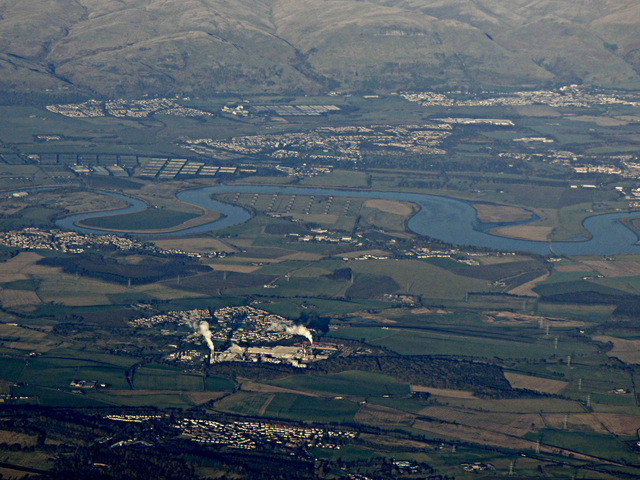 Plean, Cowie and the River Forth from the air